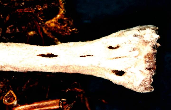 Cladonia fimbriata (L.) Fr., 1831 (photograph of a herbarium specimen taken through a dissecting microscope (x12) showing a podetium with a trumpet-shaped cup) Growing on a moss covered rock wall near Wolf Point at Fundy National Park, New Brunswick, Canada; collected and identified by A. Norden and B. Norden (No. 715, 5 Jun 1974); specimen is now in the Lichen Herbarium of the New York Botanical Garden.